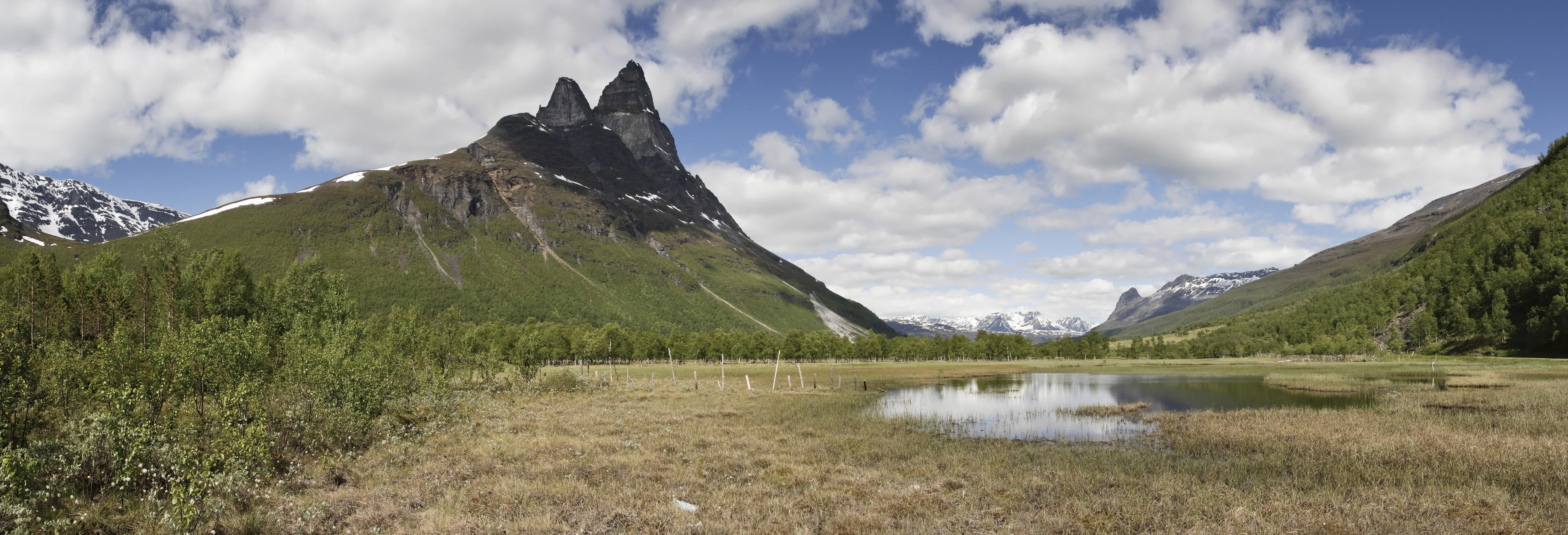 A swamp in Signaldalen in 2012 June. The mountain on the left is Otertinden.